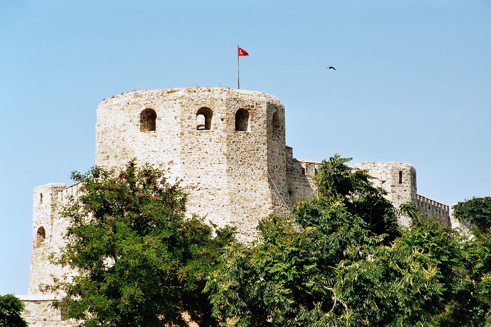 The Venetian fortress in the island of Bozcaada (Tenedos) off the coast of Turkey in the Aegian Sea Photograph taken in June 2003 by Henryk Kotowski and released under the terms of GFDL licence